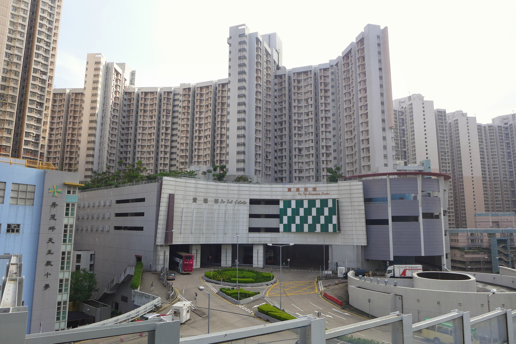 Po Tat Estate Tat Cheung House